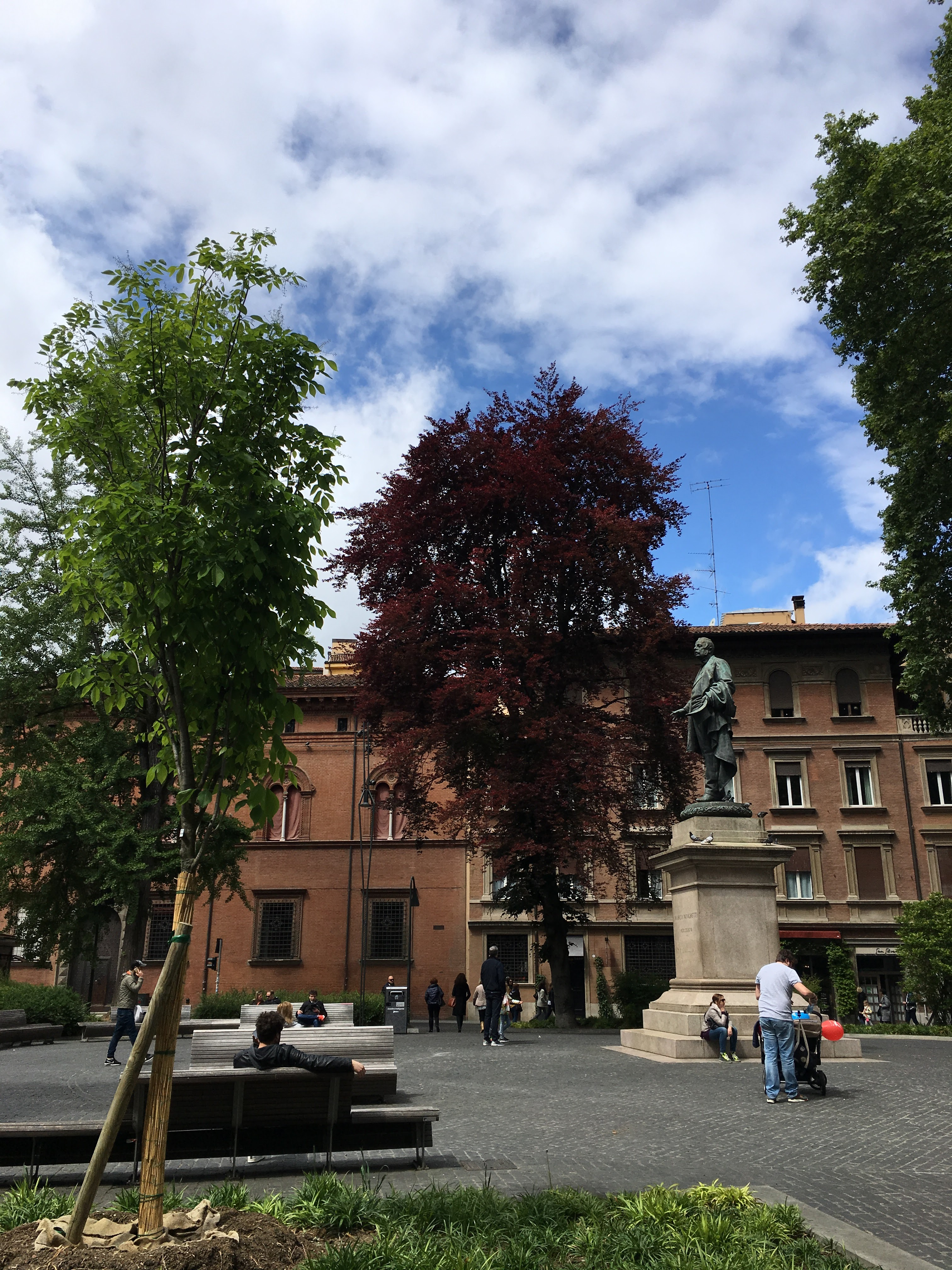 piazza minghetti, bologna